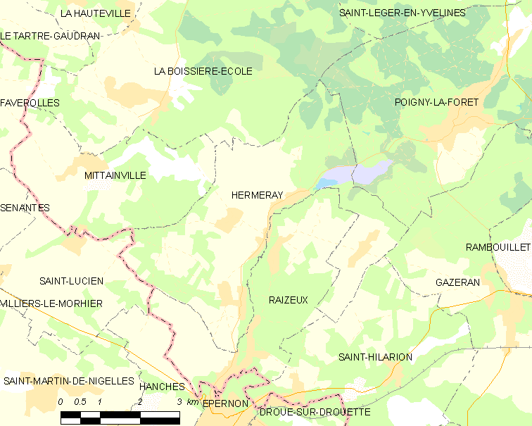 Map of French municipality Hermeray